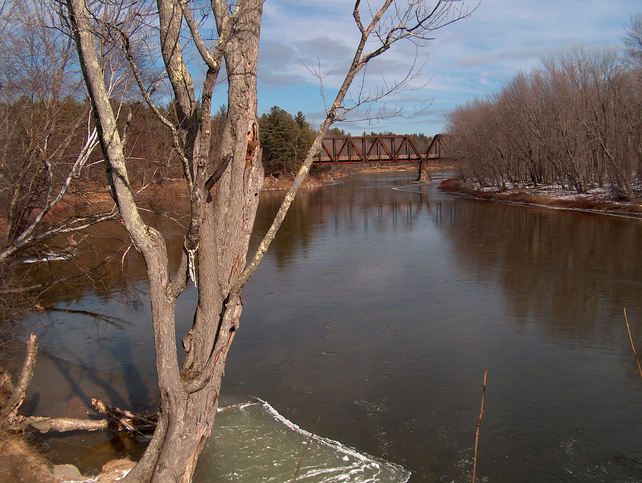 Saco River in Conway, New Hampshire. Photo by Ken Gallager, Feb. 8, 2006.